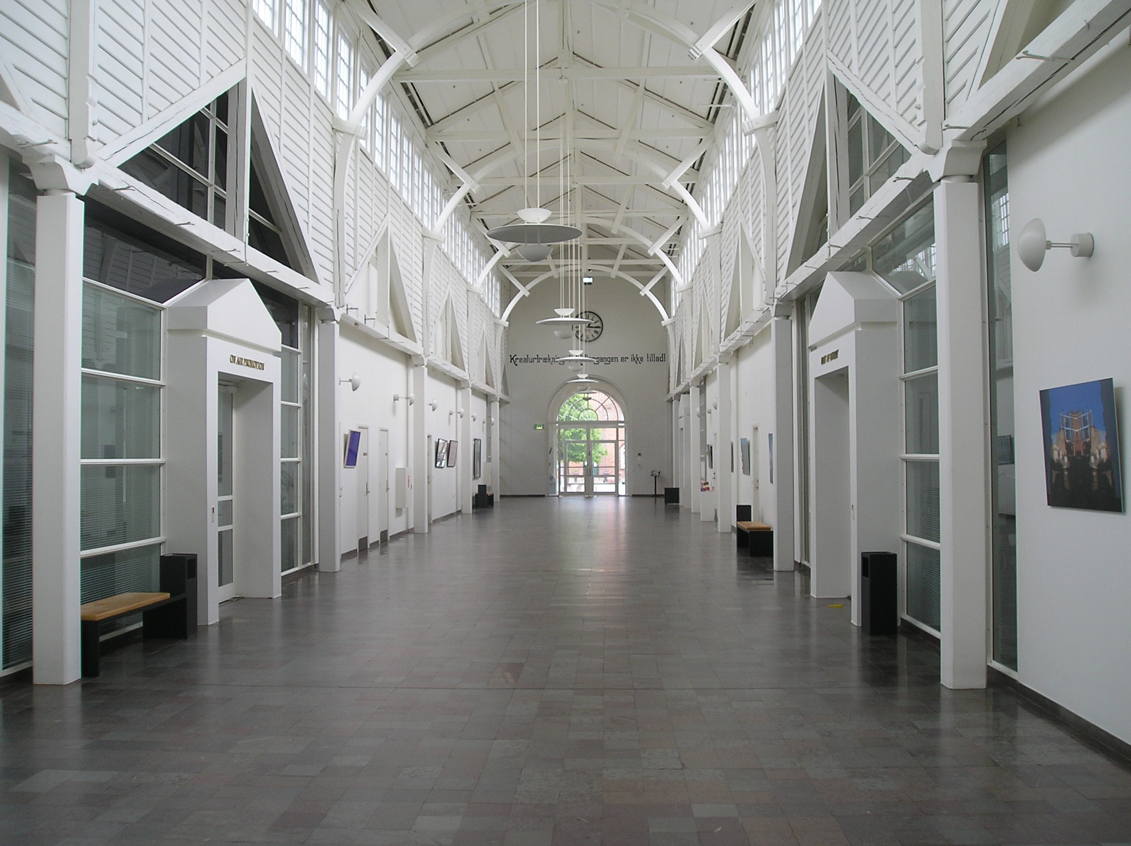 Danish television station TV 2's headquartier Kvægtorvet in Odense. The text on the wall says "Kreaturtrækning i Midtergangen er ikke tilladt" (Cattle drawing in the central gangway is not allow). The building former housed sales of cattles.